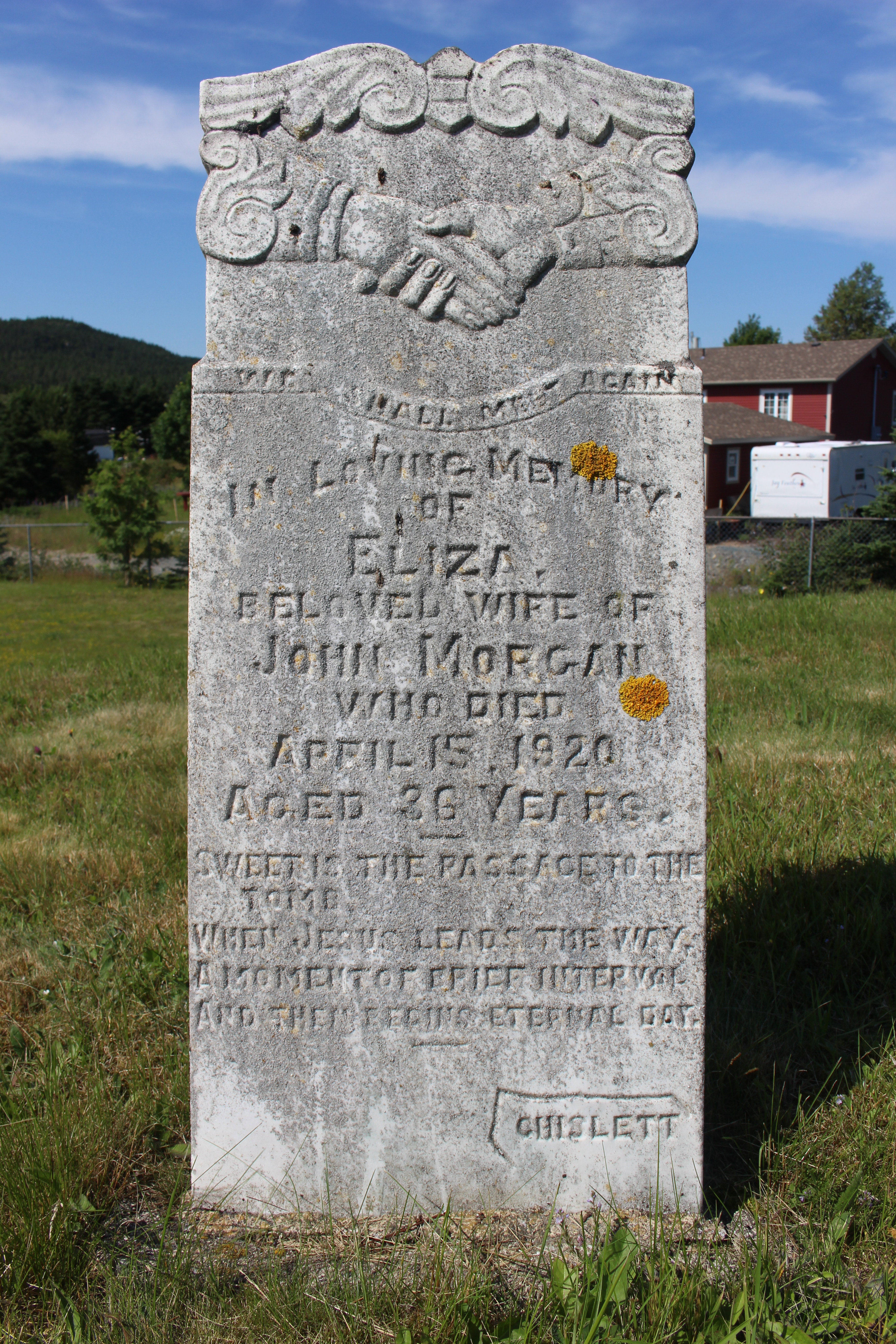 An example of a marble grave marker carved by Chislett Marble Works of St. John's, Newfoundland. The stone bears a clasped hands motif, above the phrase "We Shall Meet Again." The tombstone is inscribed: "In loving memory of Eliza beloved wife of John Morgan who died April 15, 1920 aged 36 years. Sweet is the passage to the tomb / where Jesus leads the way / A moment of brief interval / And then begins eternal day." The stone is located in the Salvation Army Cemetery, Clarke's Beach, Newfoundland. Photo taken 18 July 2020 by Dale Gilbert Jarvis.